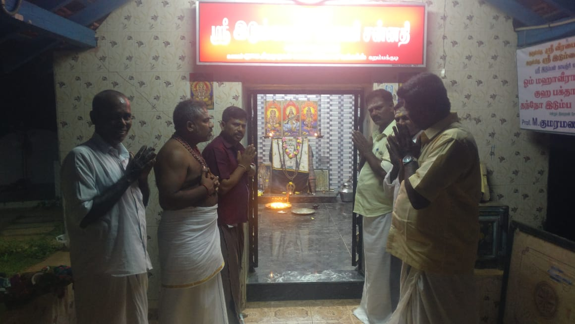 SRILANGA DEVOTEES CAME KADUVETTIVIDUTHY IDUMBAN TEMPLE